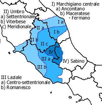 Central italian languages by Pellegrini